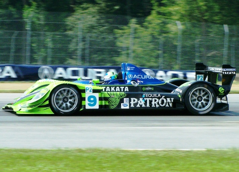 ALMS driver Scott Sharp on track during the Acura Sports Car Challenge of Mid-Ohio, July 19th, 2008.